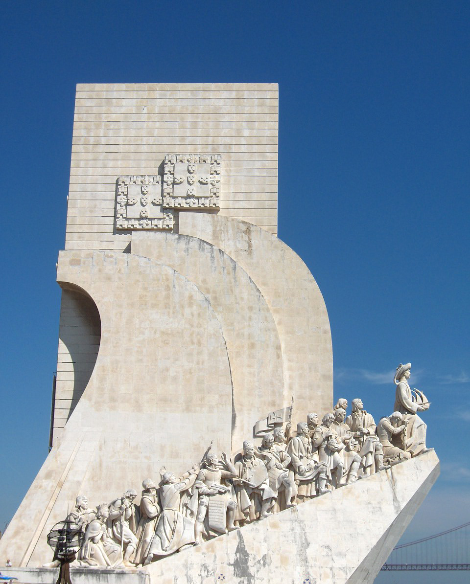 Western side of the Monument to the Discoveries in Belém, Lisbon, Portugal